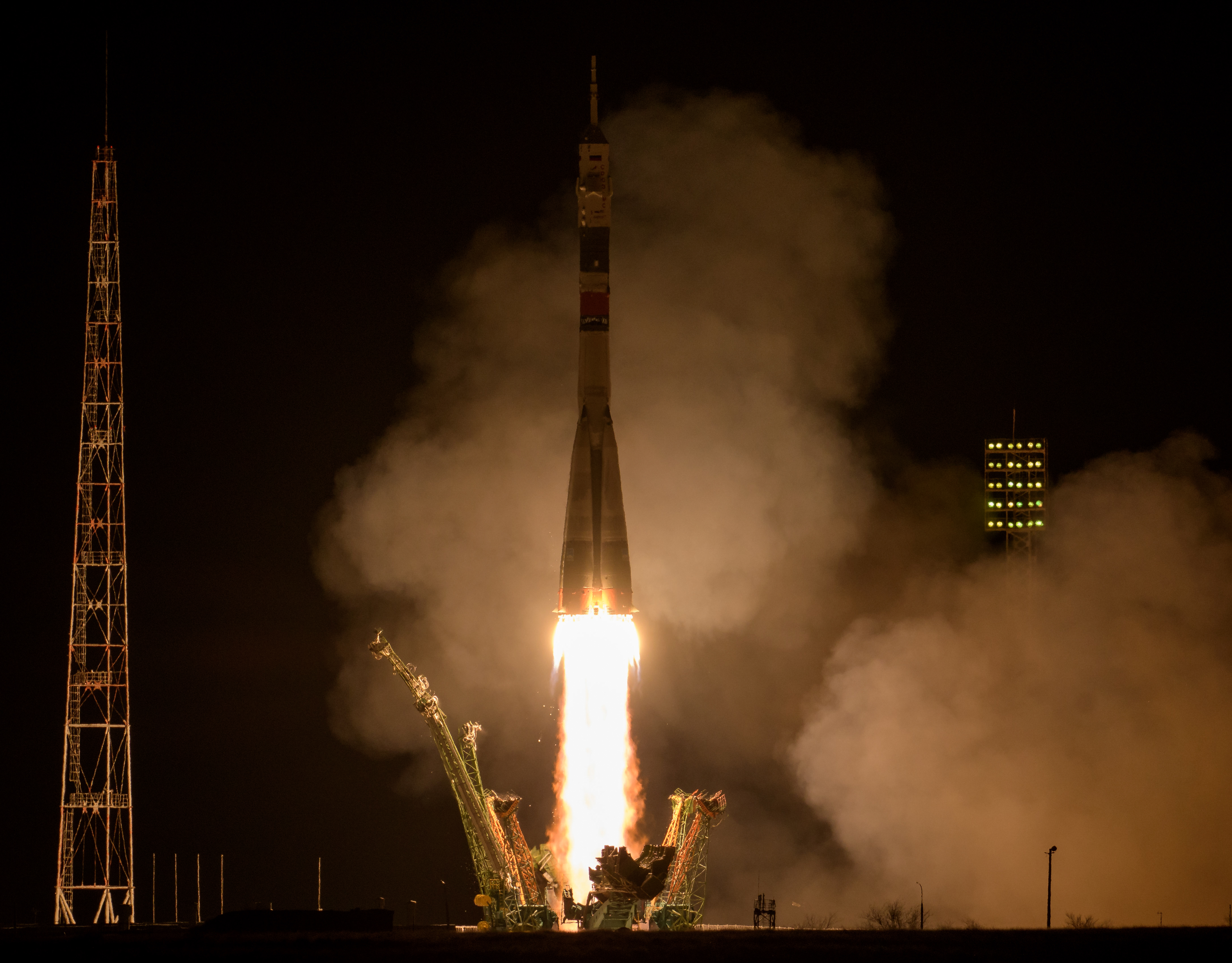 The Soyuz MS-12 spacecraft is launched with Expedition 59 crewmembers Nick Hague and Christina Koch of NASA, along with Alexey Ovchinin of Roscosmos, Friday March 15, 2019, Kazakh time (March 14 Eastern time) at the Baikonur Cosmodrome in Kazakhstan. Hague, Koch, and Ovchinin will spend six-and-a-half months living and working aboard the International Space Station.